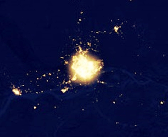 Metropolitan Region of Manaus at night - Amazonas, Brazil.